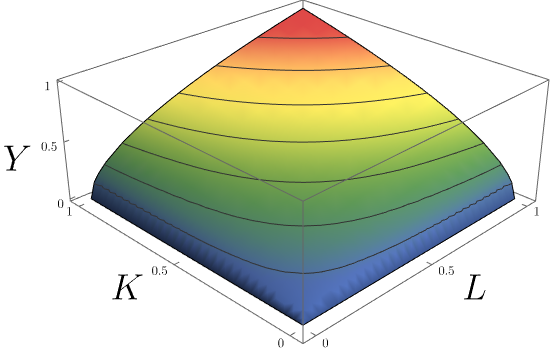 A two goods Cobb Douglas Production function with inscribed isoquants